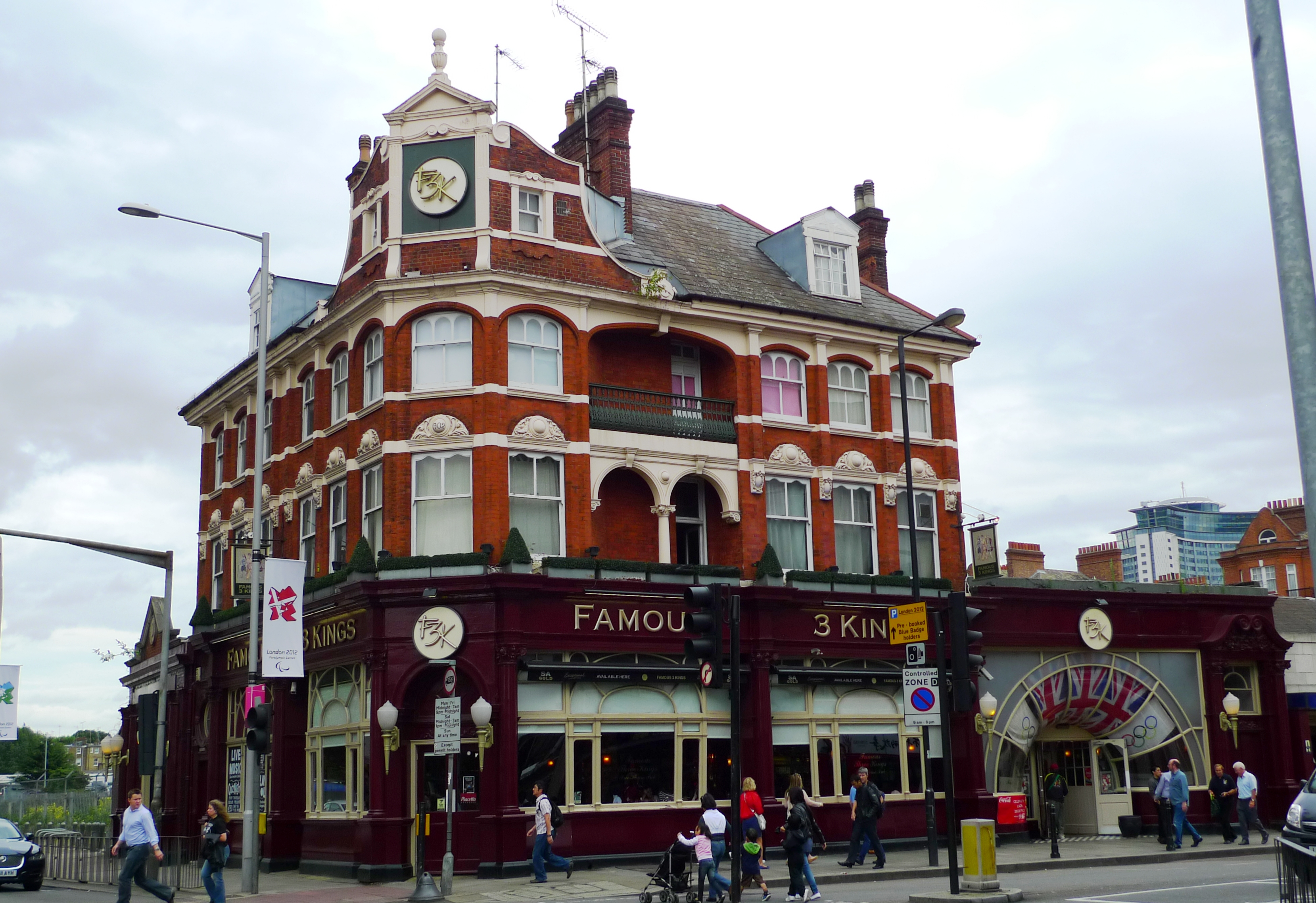 As the name suggests, this pub has accrued a bit of fame as a rock venue in the past. Address: 171 North End Road. Former Name(s): Via Fossa; The Three Kings; The Nashville Rooms. Owner: TCG Acquisitions (website); Tattershall Castle Group (former); Punch Taverns [Spirit Group] (former); Fuller Smith Turner (former). Links: Fancyapint Pubs Galore Beer in the Evening Pubs History (history)